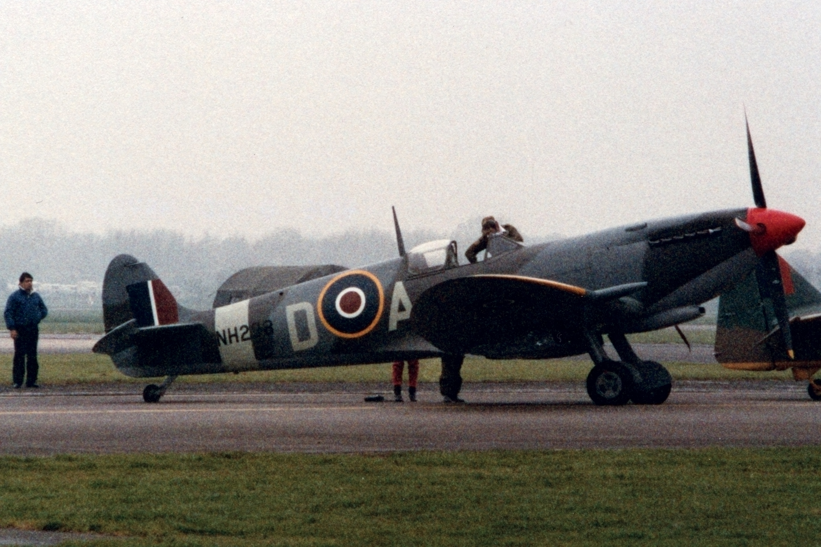 Supermarine Spitfire Photo taken at Rotterdam Airport Airshow, May 1985.